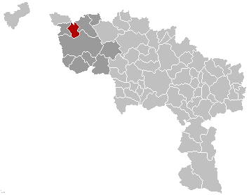 Map, municipality belgium Pecq